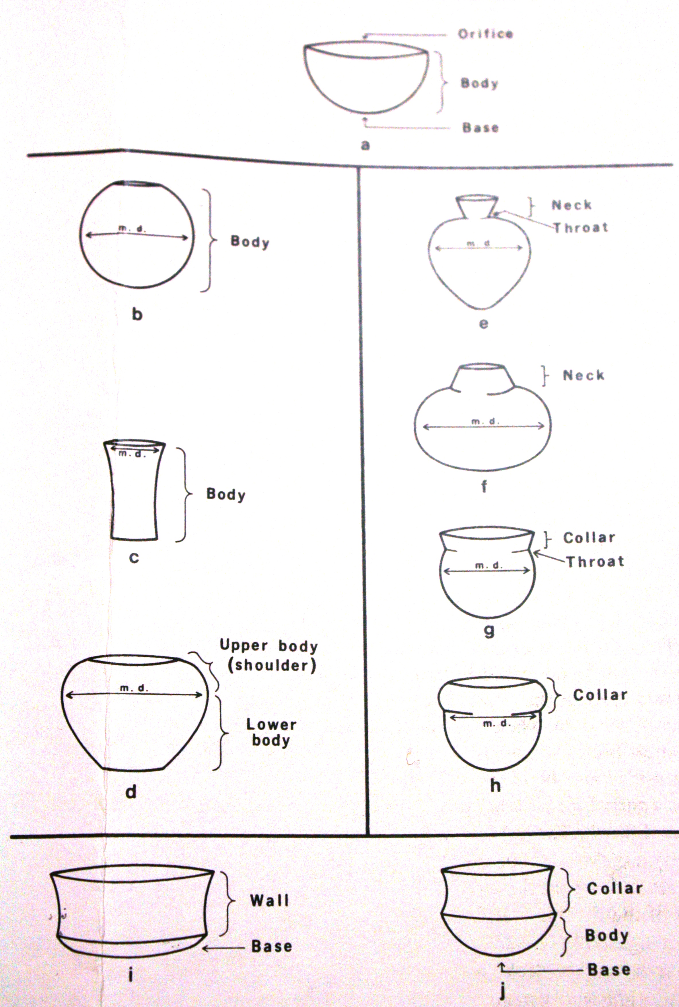 Anatomy of a typical Mycenaean ware